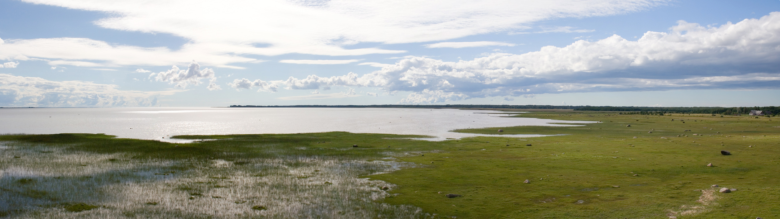 Matsalu national park. View (towards W) from Haeska birdwatching tower over Matsalu bay and meadow.